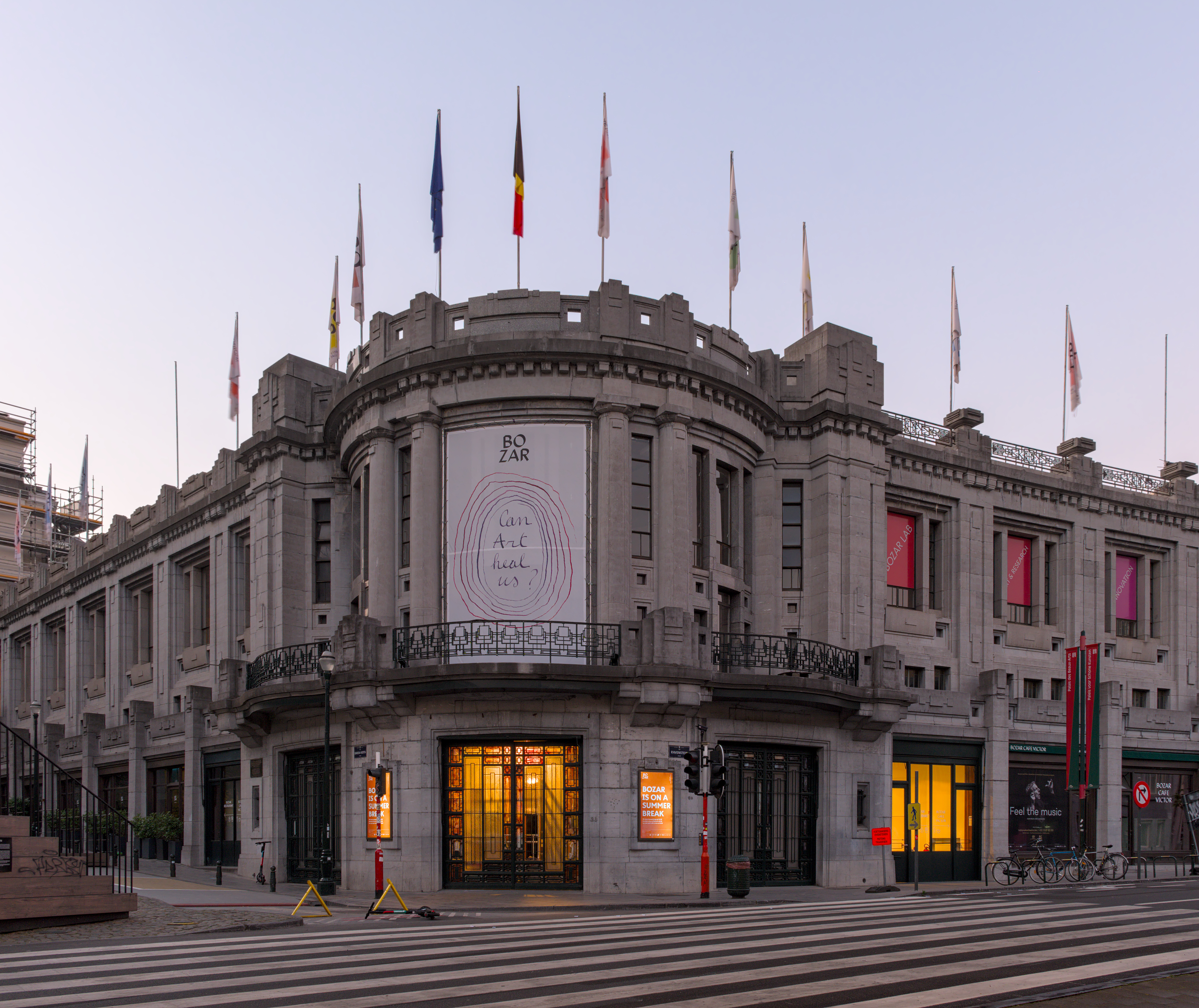 BOZAR (Centre for Fine Arts) during morning civil twilight in Brussels, Belgium This photo of immovable heritage has been taken in the Brussels Capital Region